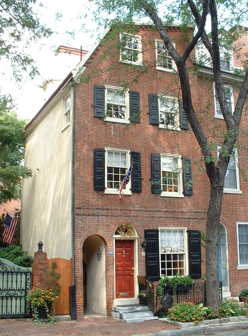 Photo of front of 243 Delancey Street, Philadelphia, PA 2006